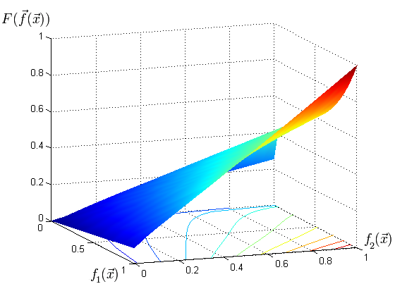 General utility for Desicion Making. Modified Additive-multiplicative one.